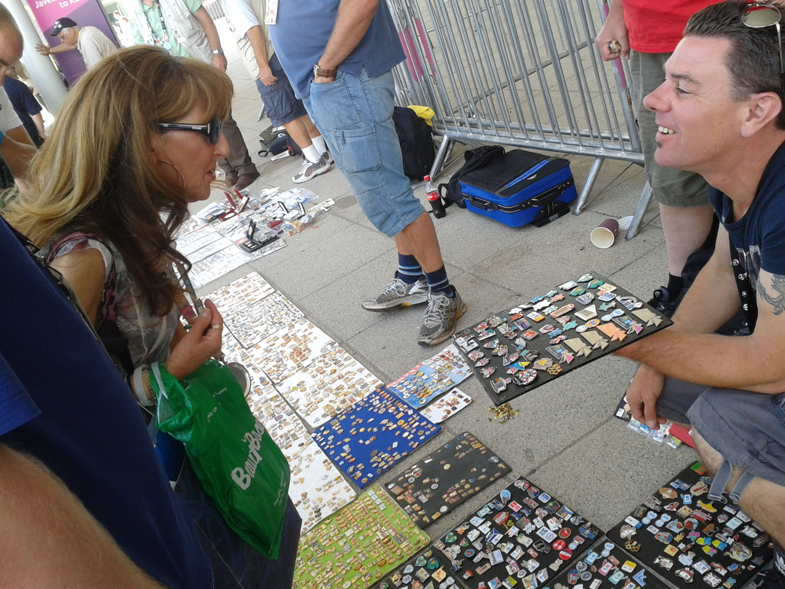 Pin trading at the entrances...